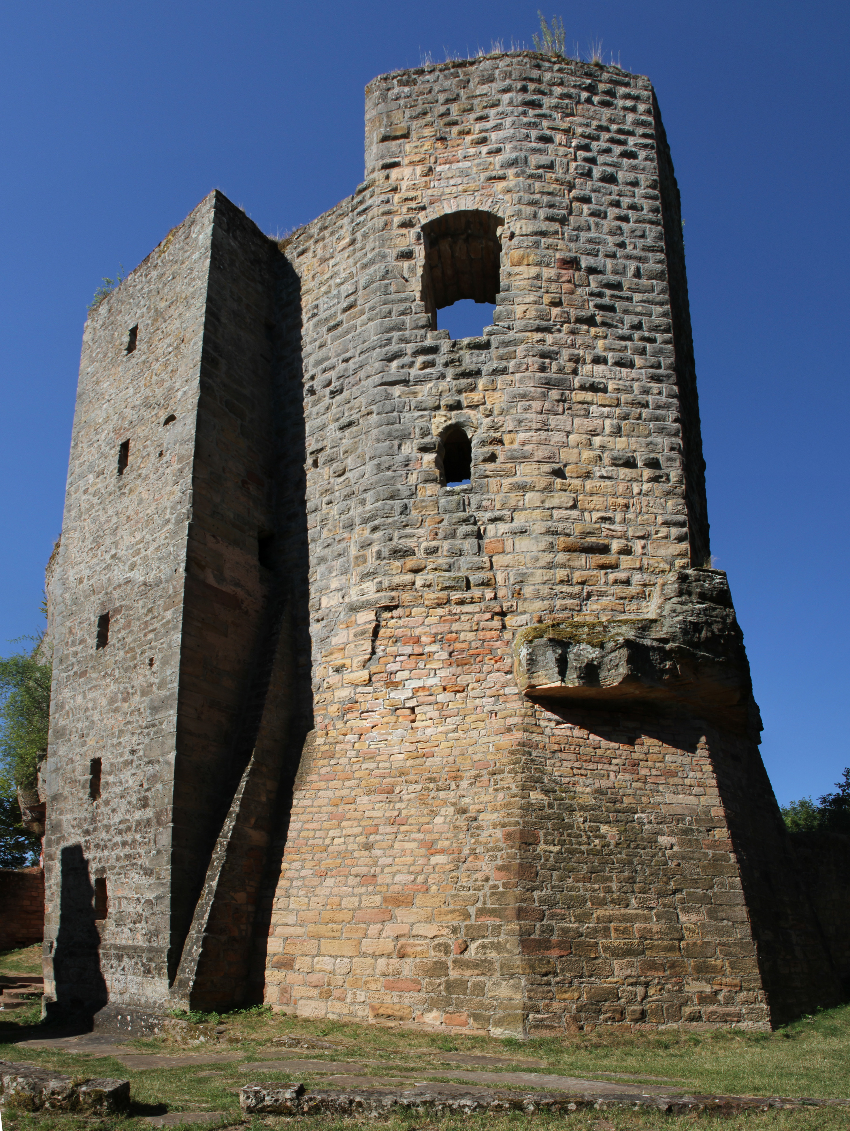 Gräfenstein Castle nearby Merzalben/Germany.